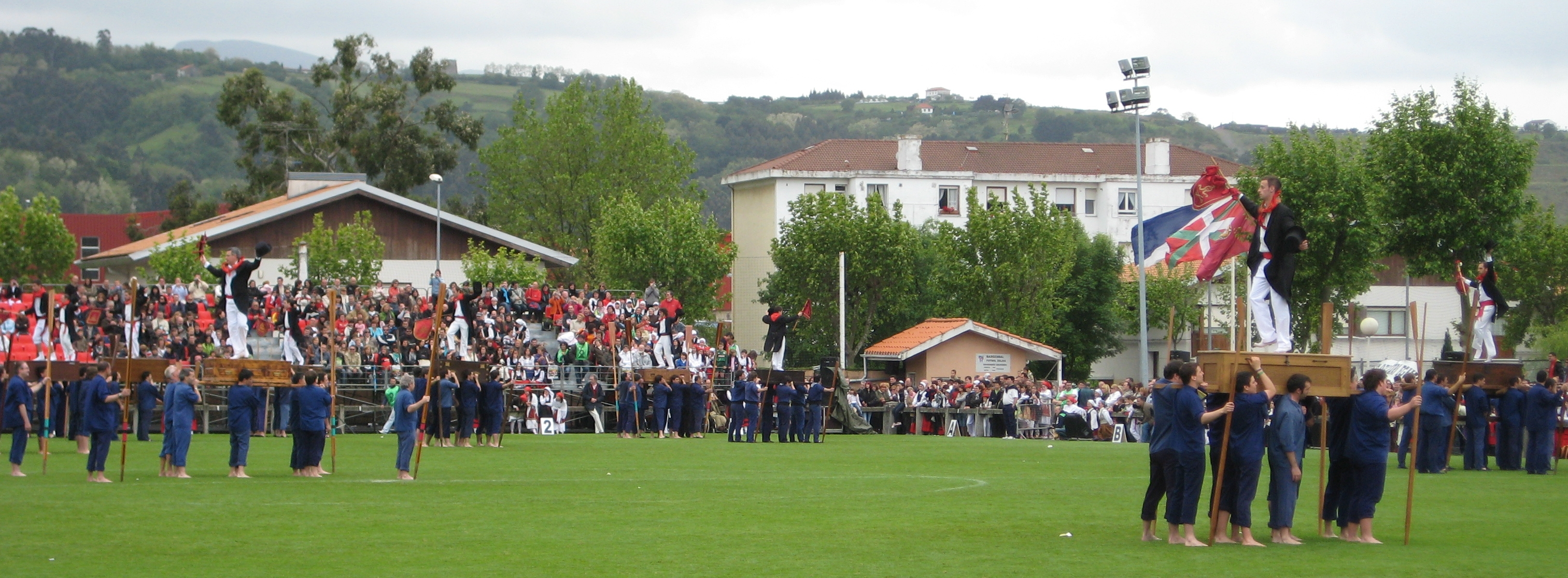 Ten of the dance crews from Biscay whihc did the kaxarranka dance simultaneously at the football field in Sondika during Dantzari Eguna (Dancer's Day) of 2010.